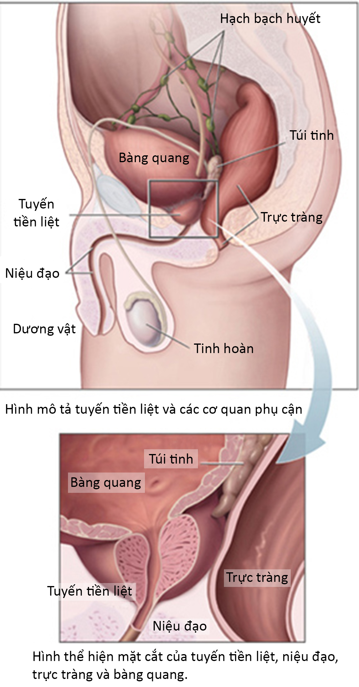 Prostate and bladder, sagittal section.